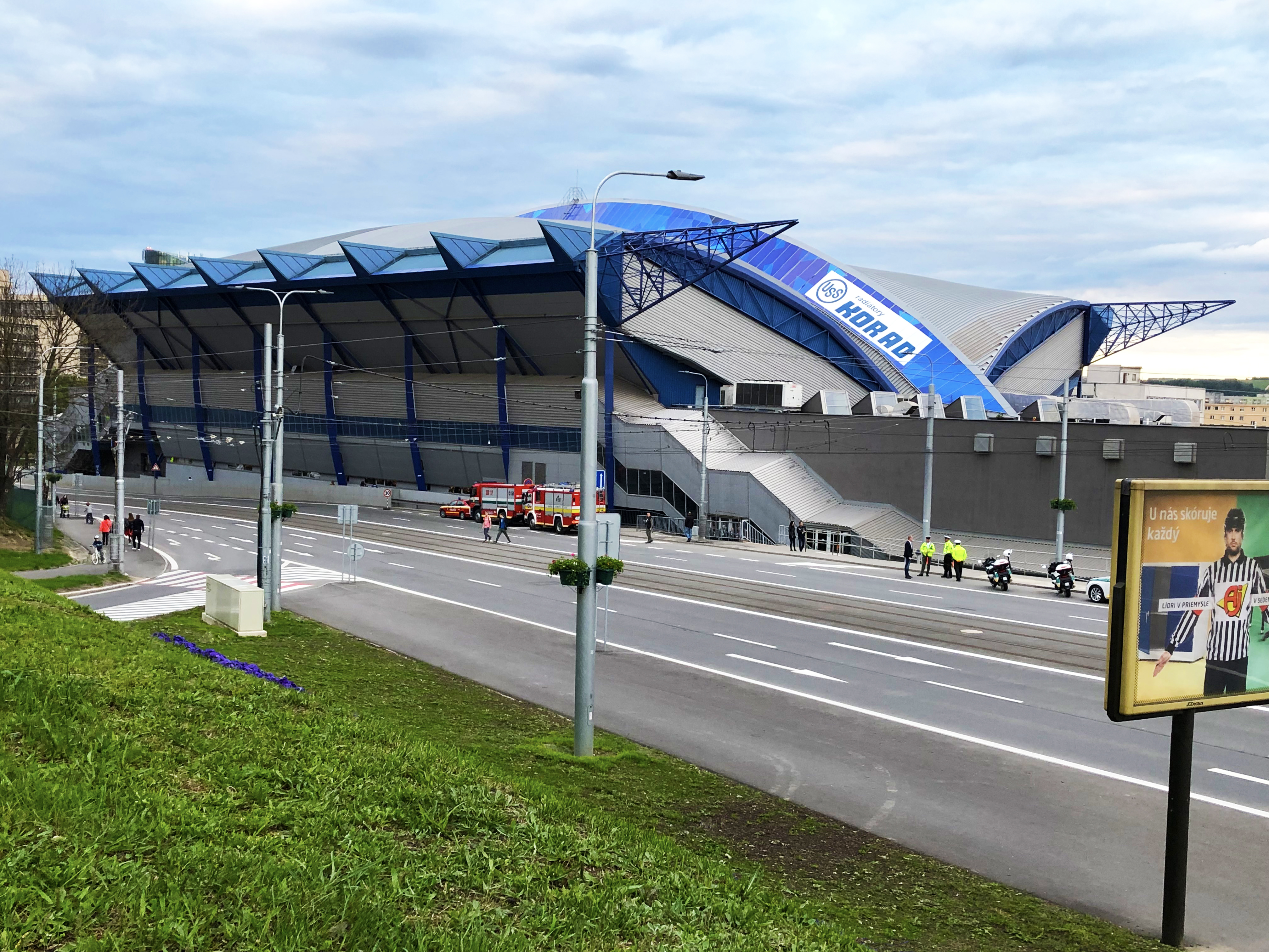 Complete view of ice hockey stadium called Steel Arena in Košice, Slovakia